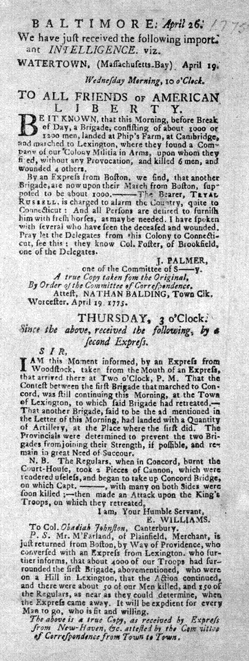 1776 reprint of broadside delivered by Bissell, lighten image, convert to PNG, reduce file size